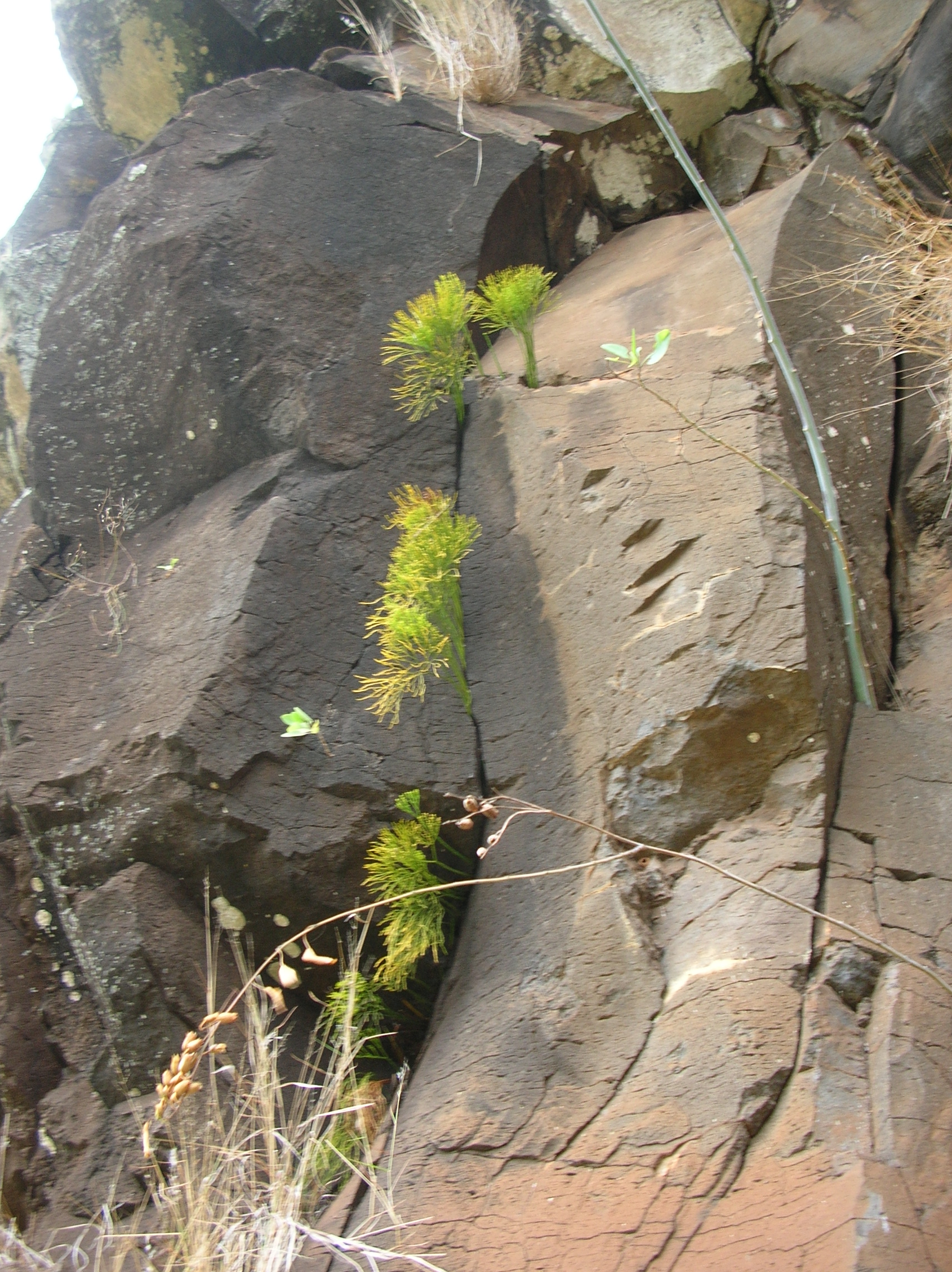 Psilotum nudum (habit). Location: Maui, Haleakala Ranch